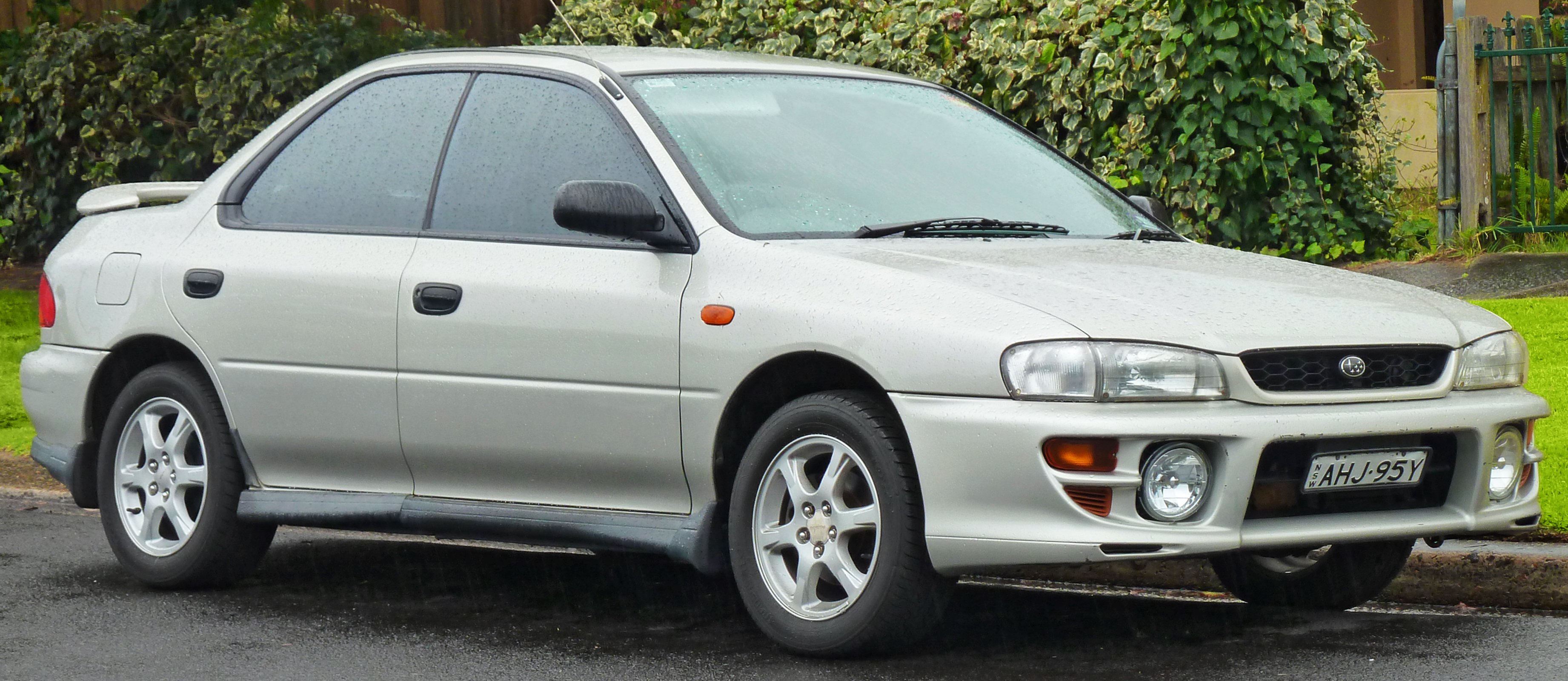 1999 Subaru Impreza (GC8 MY99) RX AWD sedan. Photographed in Chatswood, New South Wales, Australia.